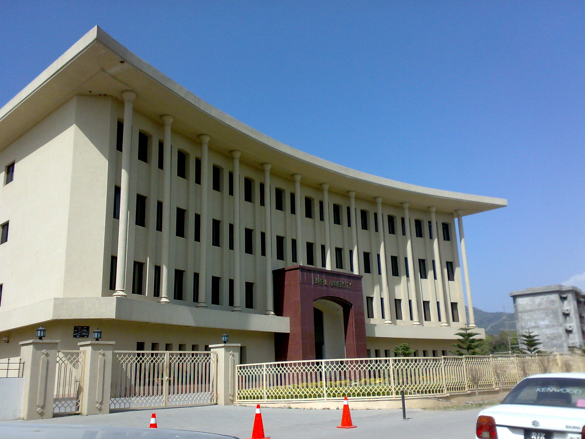 The New Campus building of Bahria Islamabad.